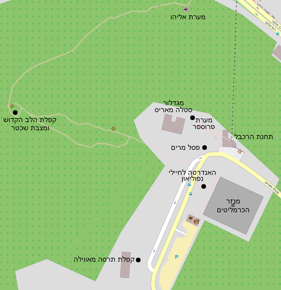 Map of Stella Maris